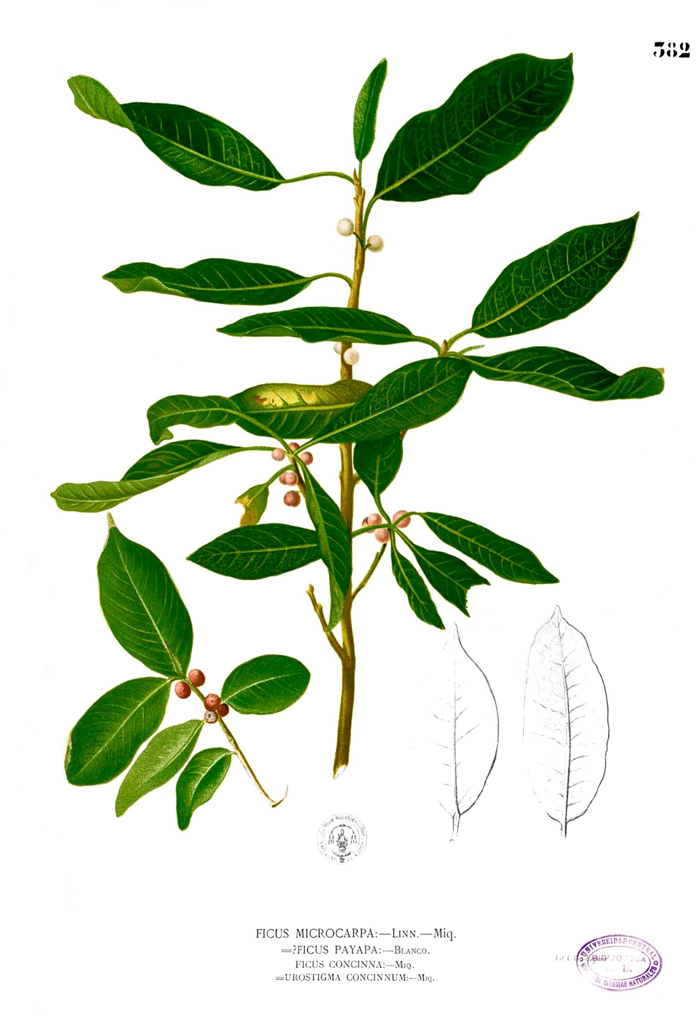 Plate from book